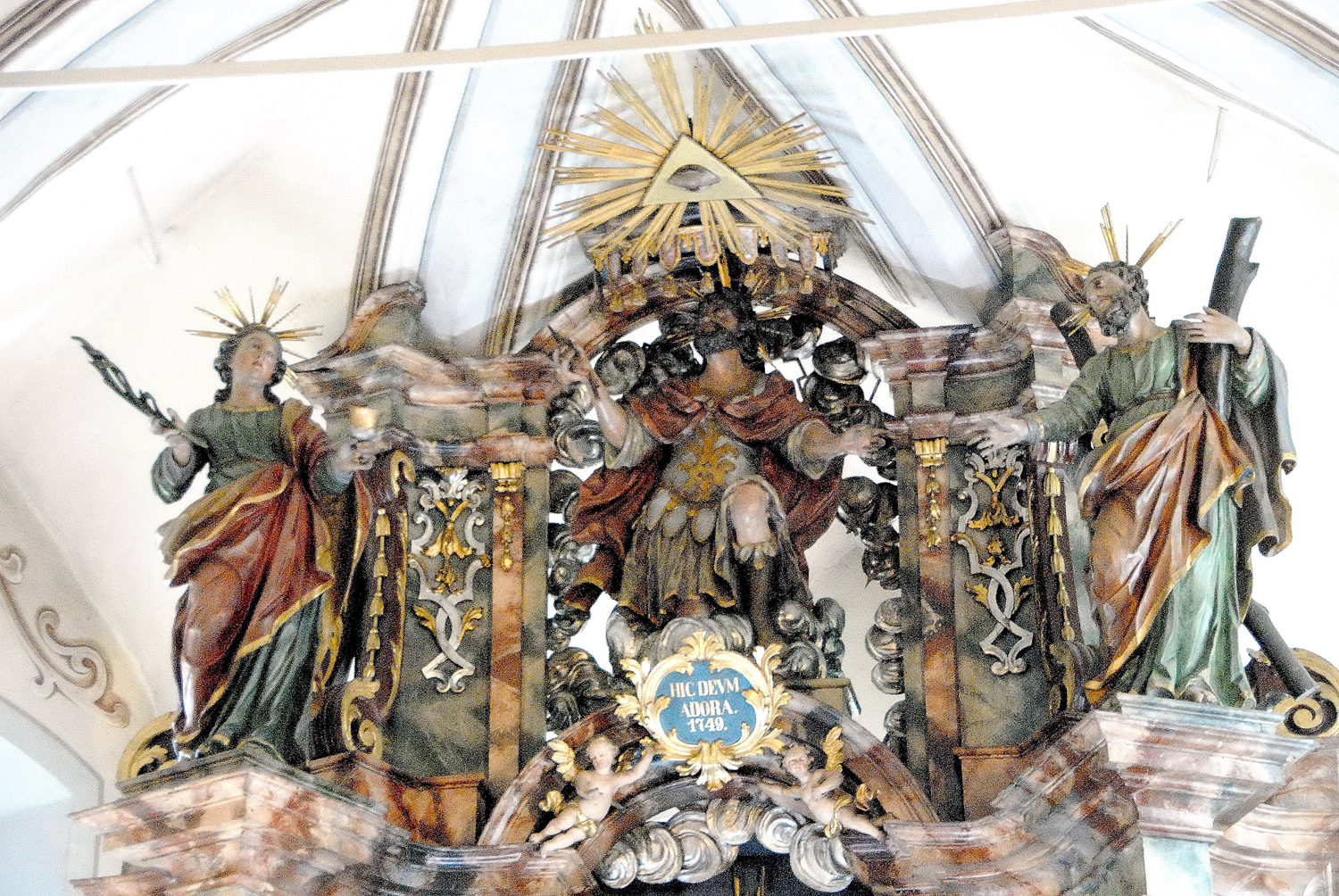 Saint Donatus on top the high altar in the parish church at Saint Donat, municipality Sankt Veit an der Glan, district Sankt Veit an der Glan, Carinthia, Austria